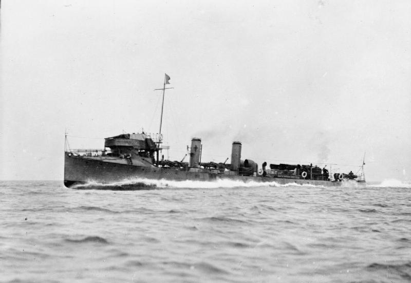 Photograph of British coastal destroyer HMS Cricket.